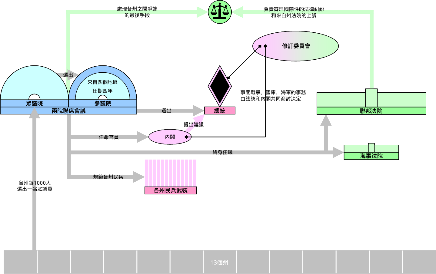 A diagram of the Pinckney Plan presented at the Constitutional Convention in the United States in 1787.